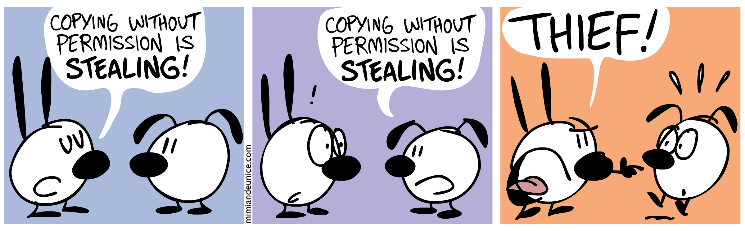 Mimi & Eunice, “Thief”. Categories at the source website: Anger, Delusions, IP. Transcript: Mimi: Copying without permission is stealing! Eunice: Copying without permission is stealing! Mimi: THIEF!